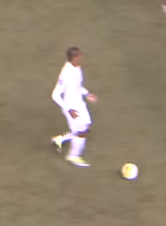 Santos FC player Luiz Felipe in action against Sport Recife.